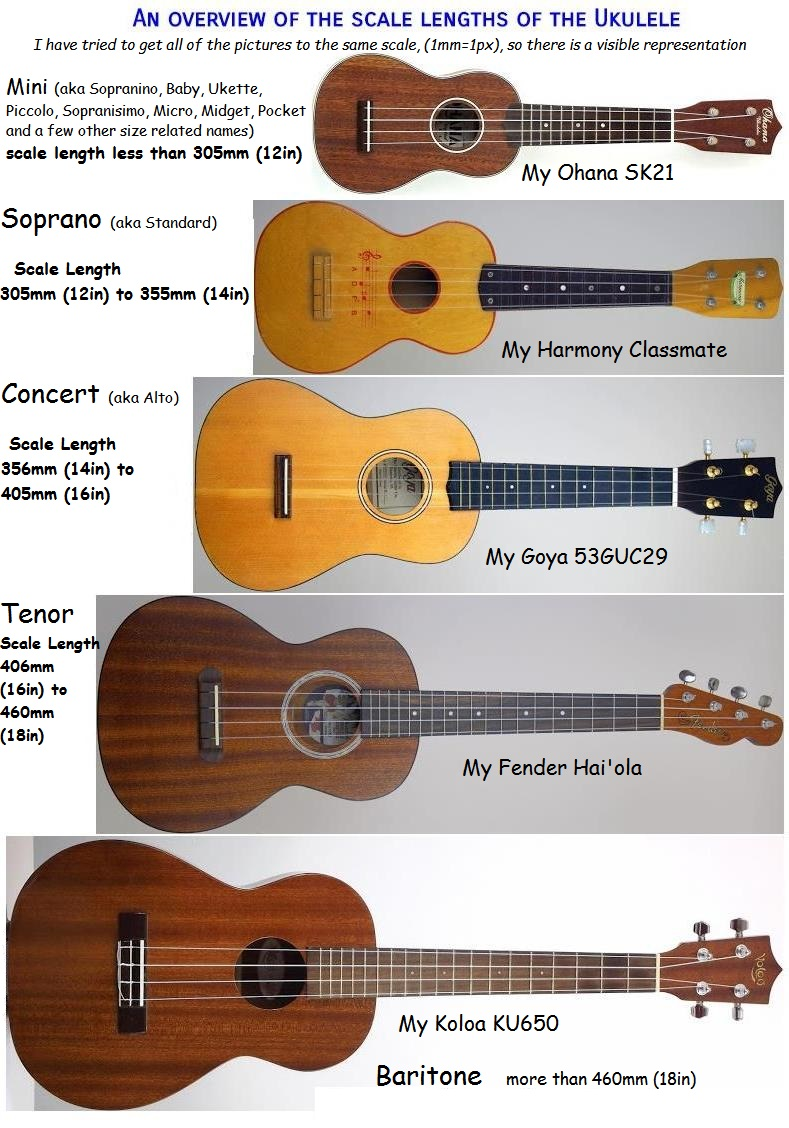 a picture showing the relative size and scale length of the Ukulele family of instruments. The pictured ukuleles are all reduced in size by the same amount to maintain the difference in size and all of the ukuleles are in the collection of Lardy Fatboy